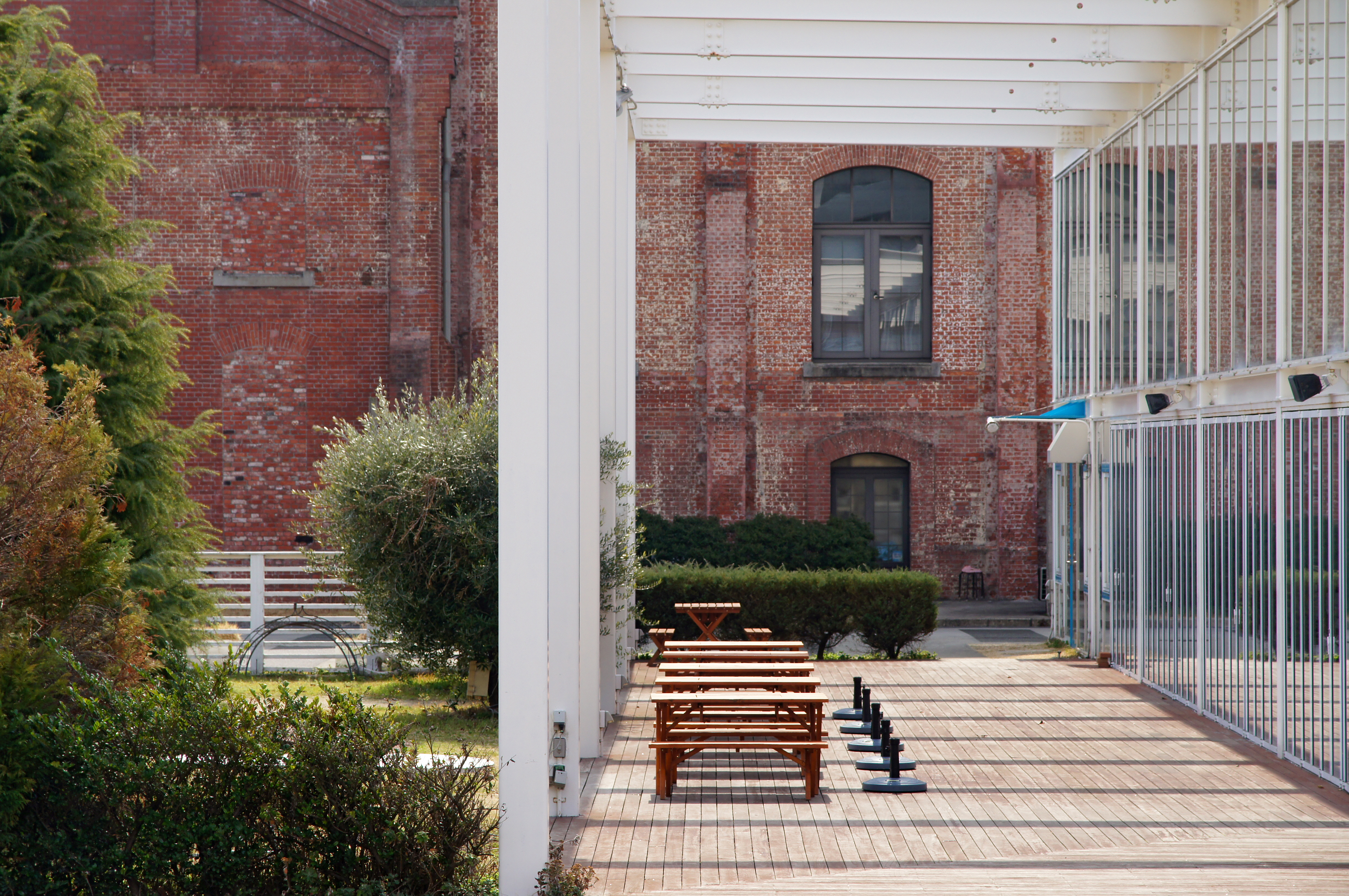 Sumoto Civic Square in Sumoto, Hyogo prefecture, Japan.